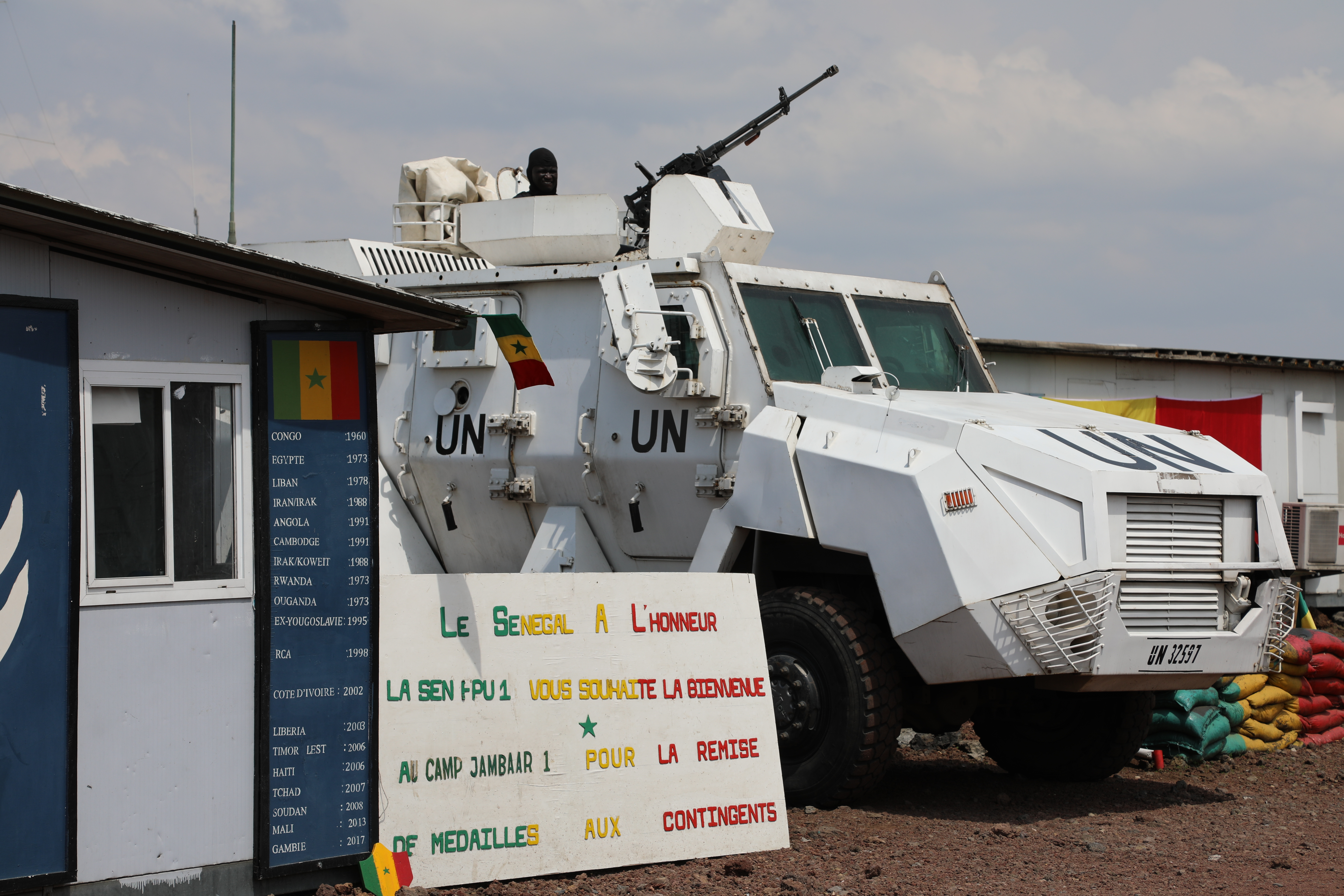 Goma, North Kivu Province,DRC: Officers of the Senegalese Formed Police Unit in Goma received their peace medals on Thursday 28 February 2019 at their camp in Goma. Activities included a march past, display of martial arts and VIP protection as well as a rich display of Senegalese cultural dances. Guest of Honor was the MONUSCO Police Commissioner Genera Awale .Present also was the ambassador of Senegal to DRC.’Photo MONUSCO/Michael Ali